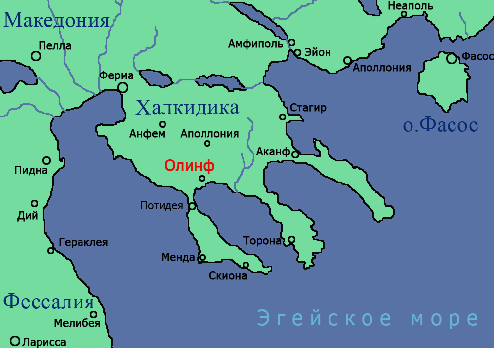 Chalkidian League